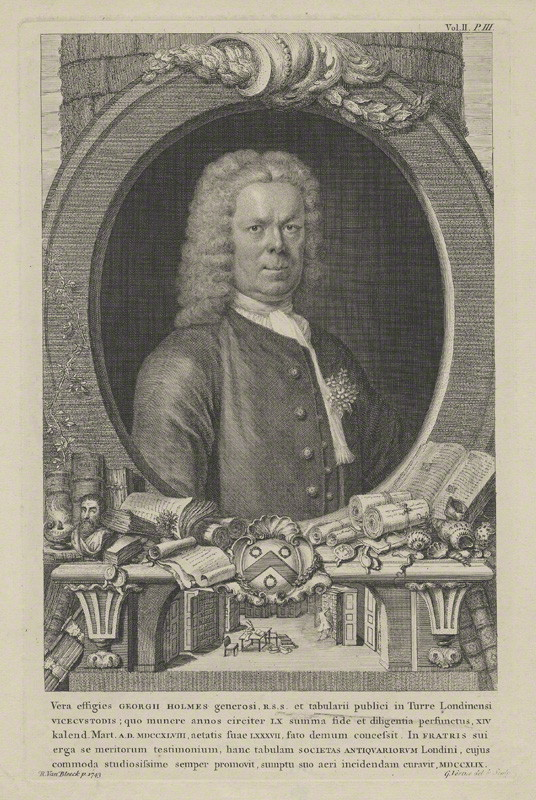 Portrait of George Holmes (1662–1749), English archivist.